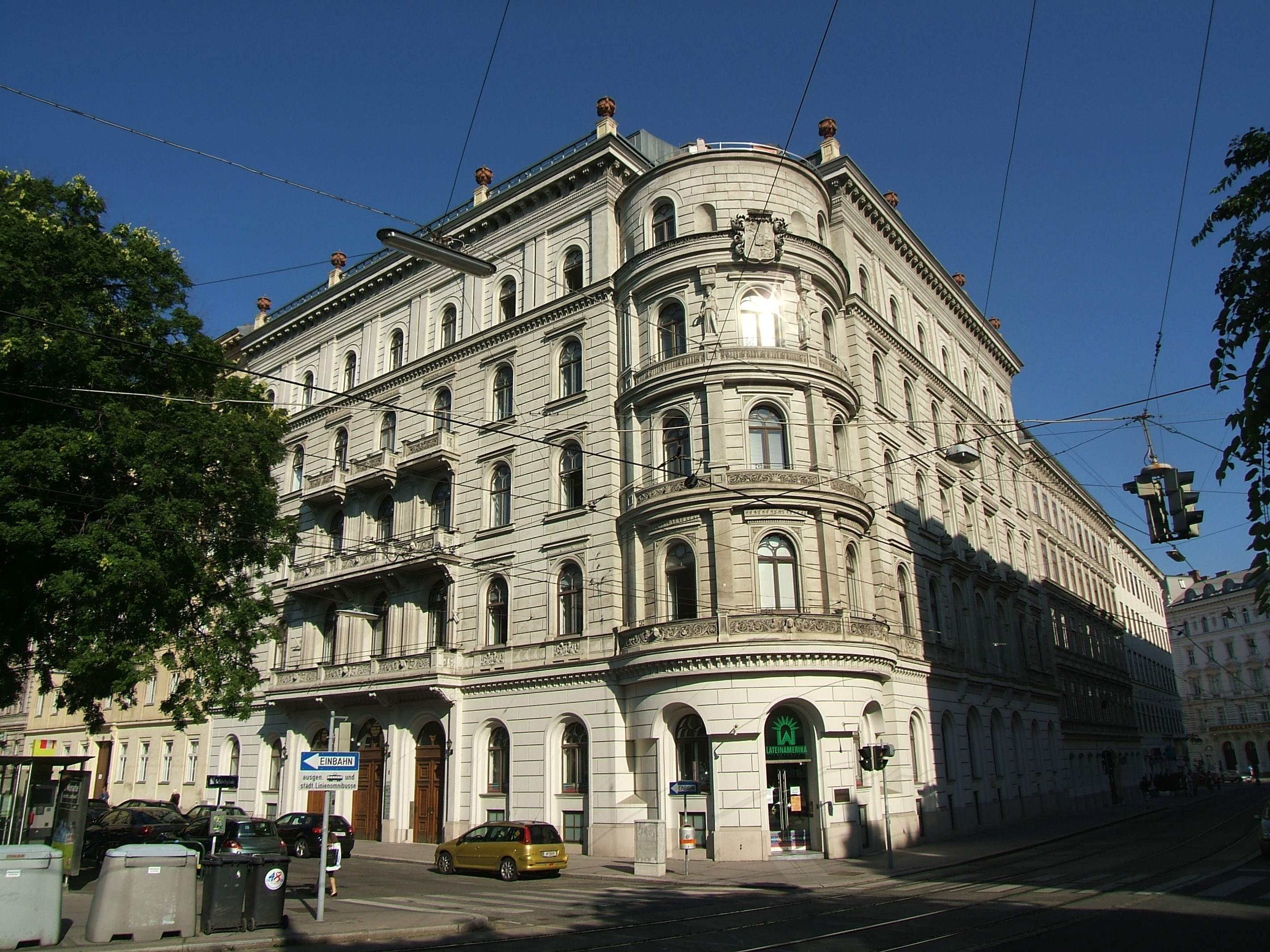 Palais Schlick in Vienna 9th district Türkenstraße 25